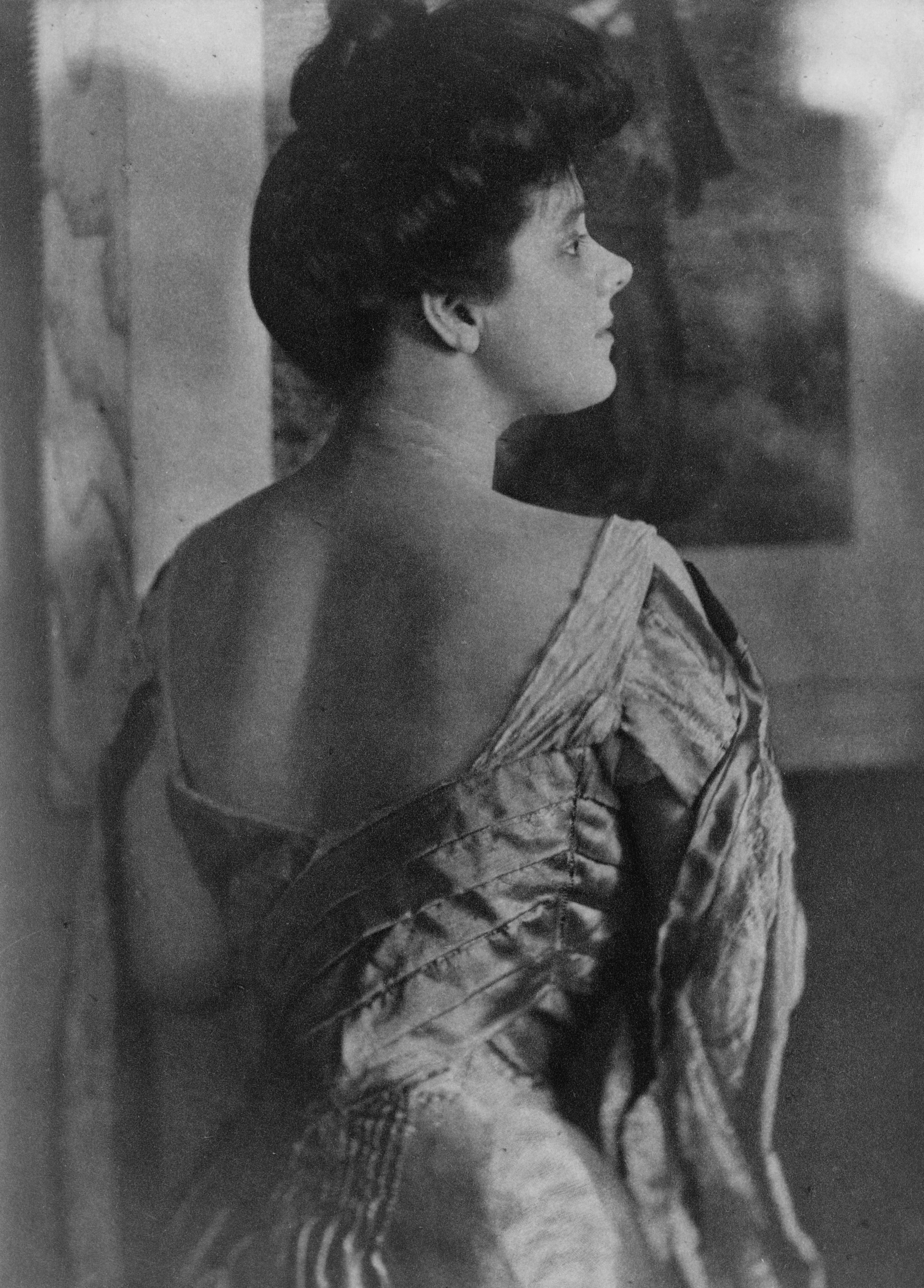 Cuban-American socialite Rita de Acosta Lydig (1875-1929) photographed by Gertrude Käsebier (1852-1934). Illustration in "Camera work", n° 10, April 1905.